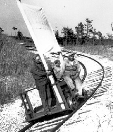 Buckingham Army Airfield - Juda target railway gunnery training car